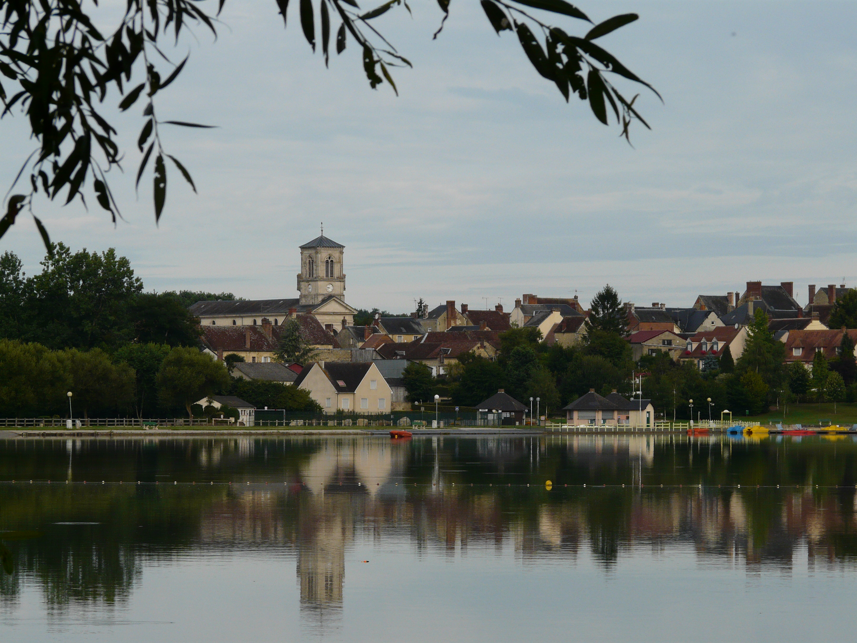 general view of the town taken from the lake "étang de bois-roger"